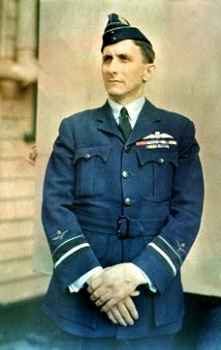 Portrait of Air Vice-Marshal Sir George Jones, CBE, DFC, Chief of the Air Staff, Royal Australian Air Force.